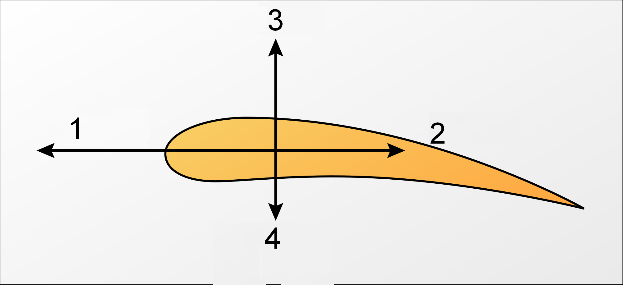 La bildo estas kopiita de en. La originala priskribo estas: The four forces on an aircraft: lift, weight, drag and thrust. 1-thrust,2-drag,3-lift,4-weight